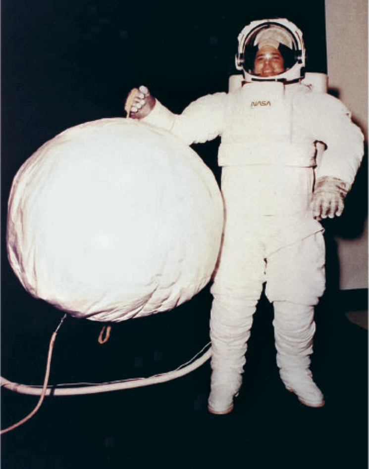 ILC-made PRE in don/use demonstration (courtesy NASA).